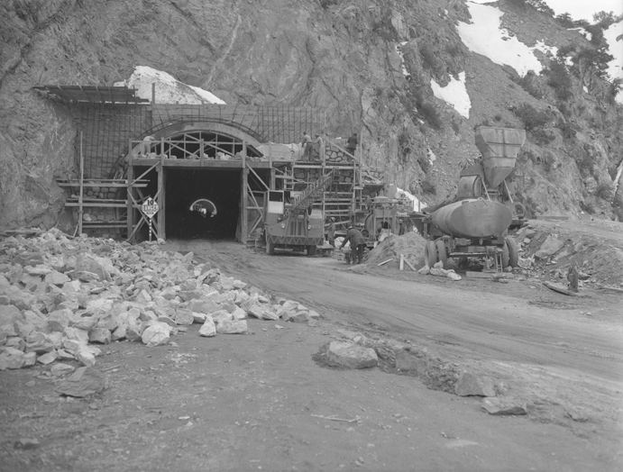 Title: Tunneling through San Gabriel Range for Angeles Crest Highway, Calif., 1949 Published caption: UNDERGROUND -- A short distance east of Cedar Springs the road threads two tunnels, the first one 720 feet long, the second 420 feet. This, the larger one, is practically completed. Blasting still goes on in second